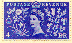 GB Elizabeth II Coronation Stamp 1953 Scanned from personal collection Jeff Knaggs 10:45, 29 Nov 2004 (UTC)